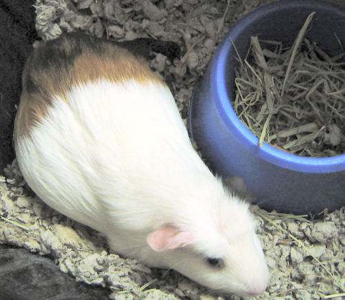 Picture of a pregnant guinea pig (Cavia porcellus) 1 week before delivering 3 pups